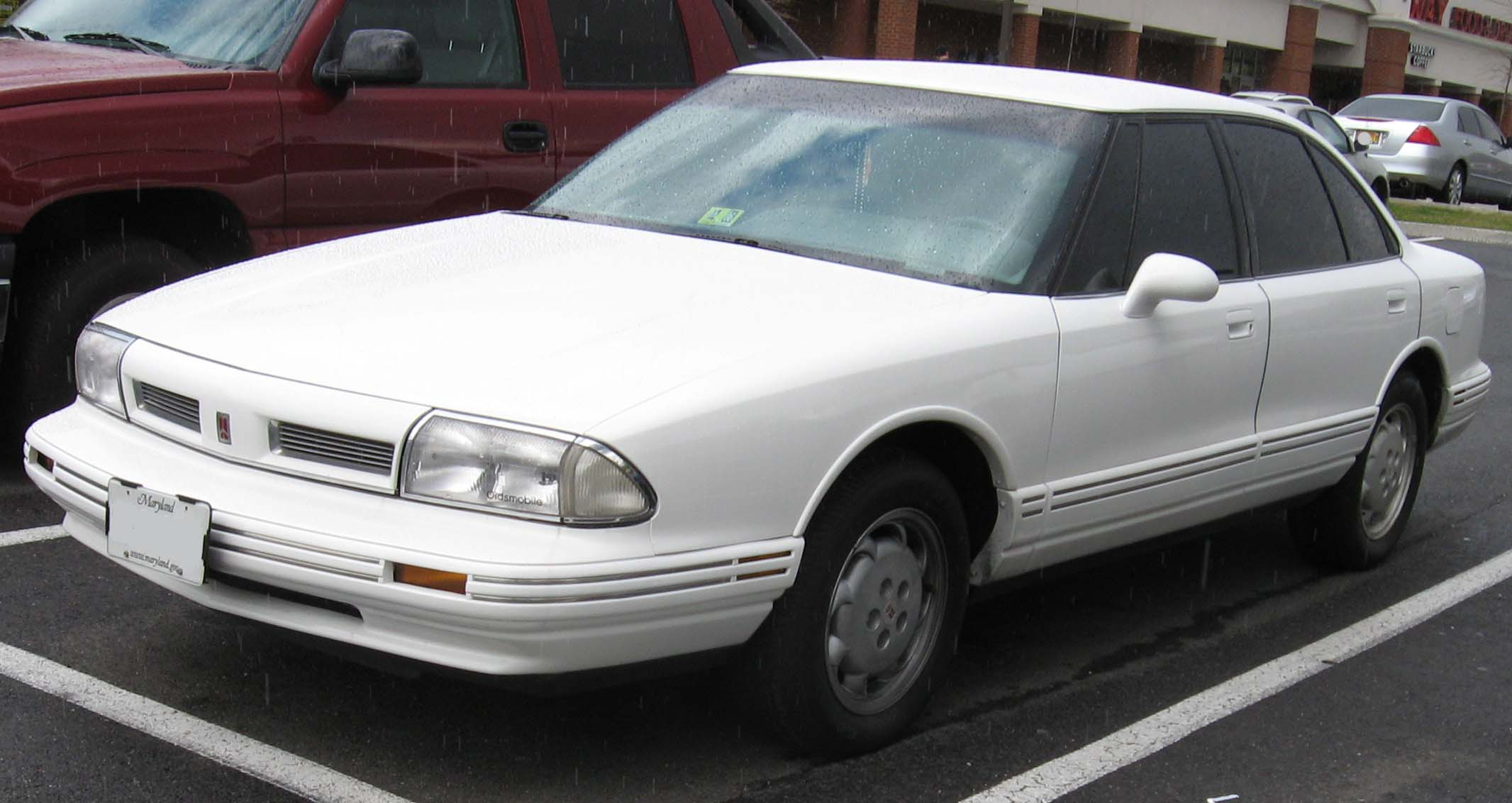 1992-1995 Oldsmobile Eighty-Eight Royale photographed in USA.